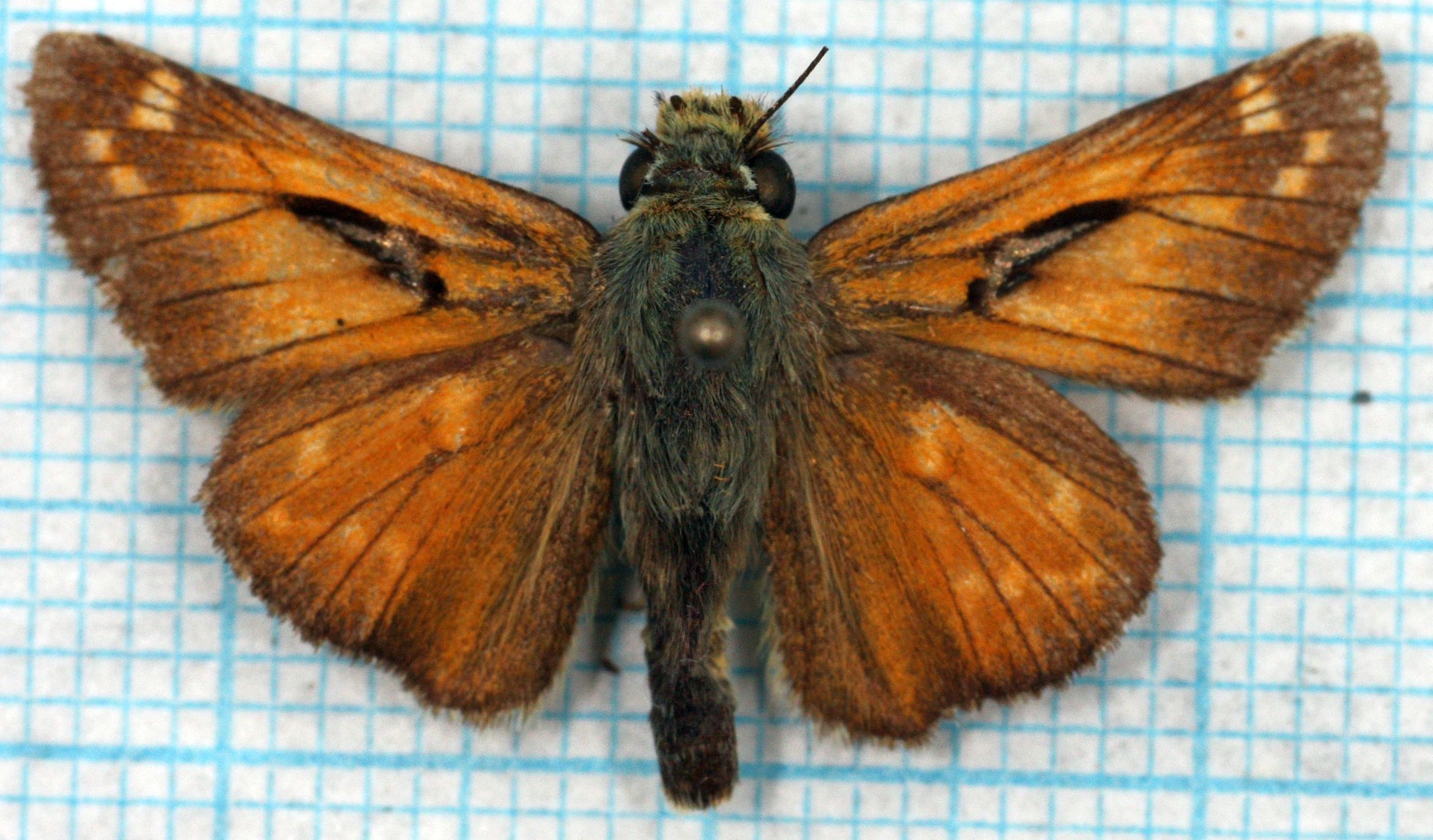 Silver-spotted Skipper Hesperia comma